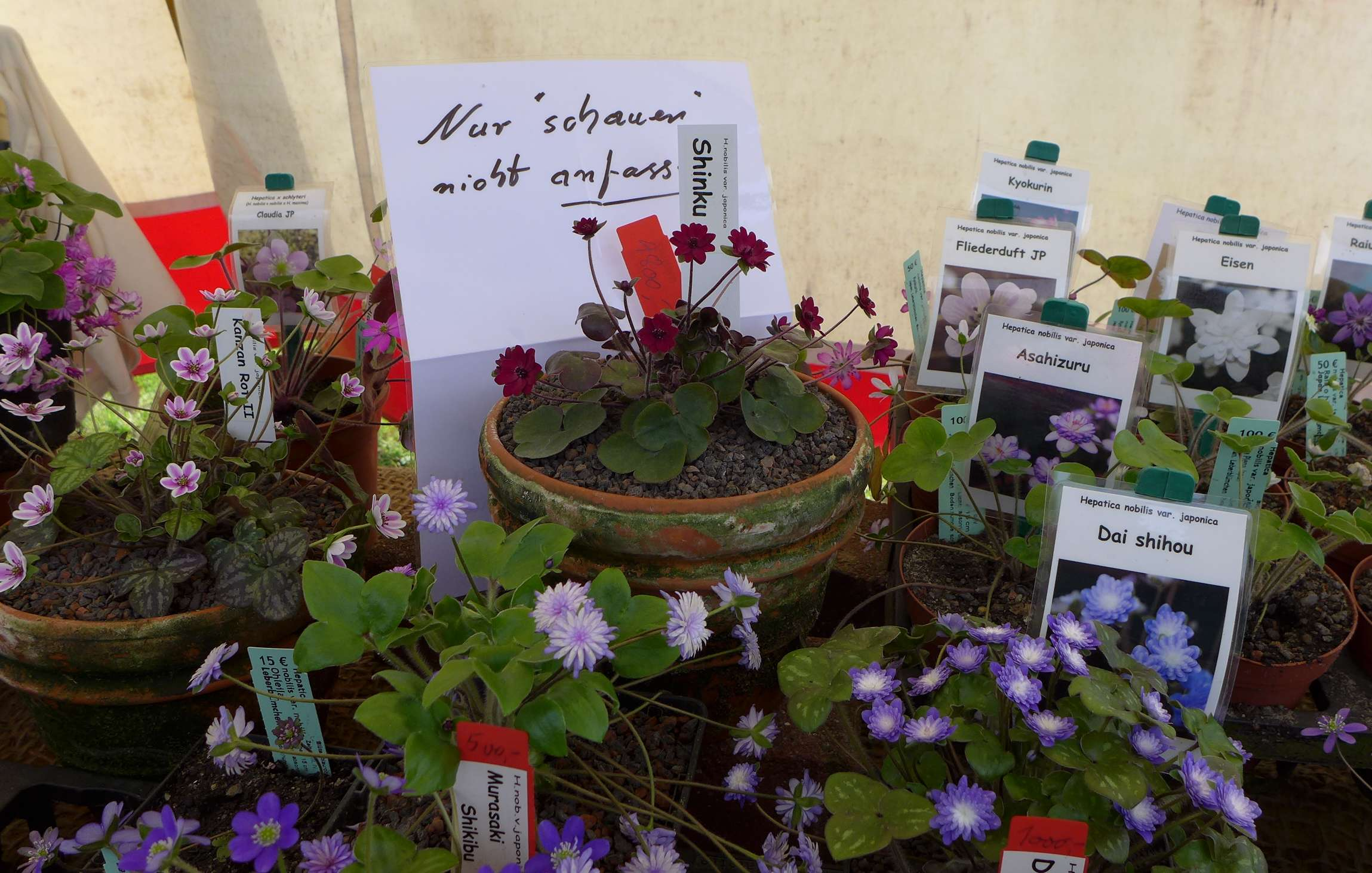 Hepatica on display at plant exchange in Botanical garden Berlin in Spring 2016. Prices in Euro